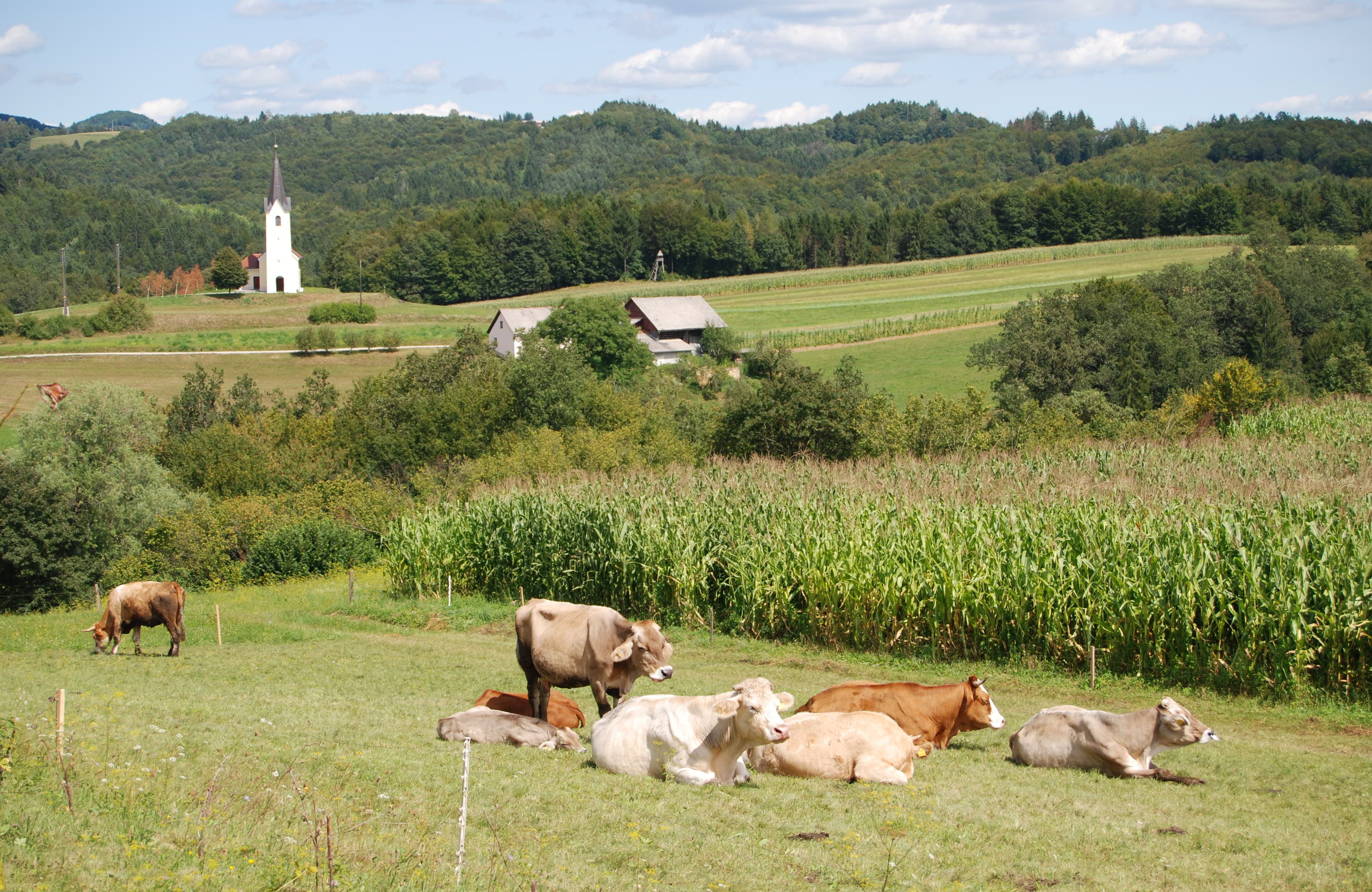 Cows in Brezje, Sevnica. St. Margaret's Church in the village of Kamenica in the background.